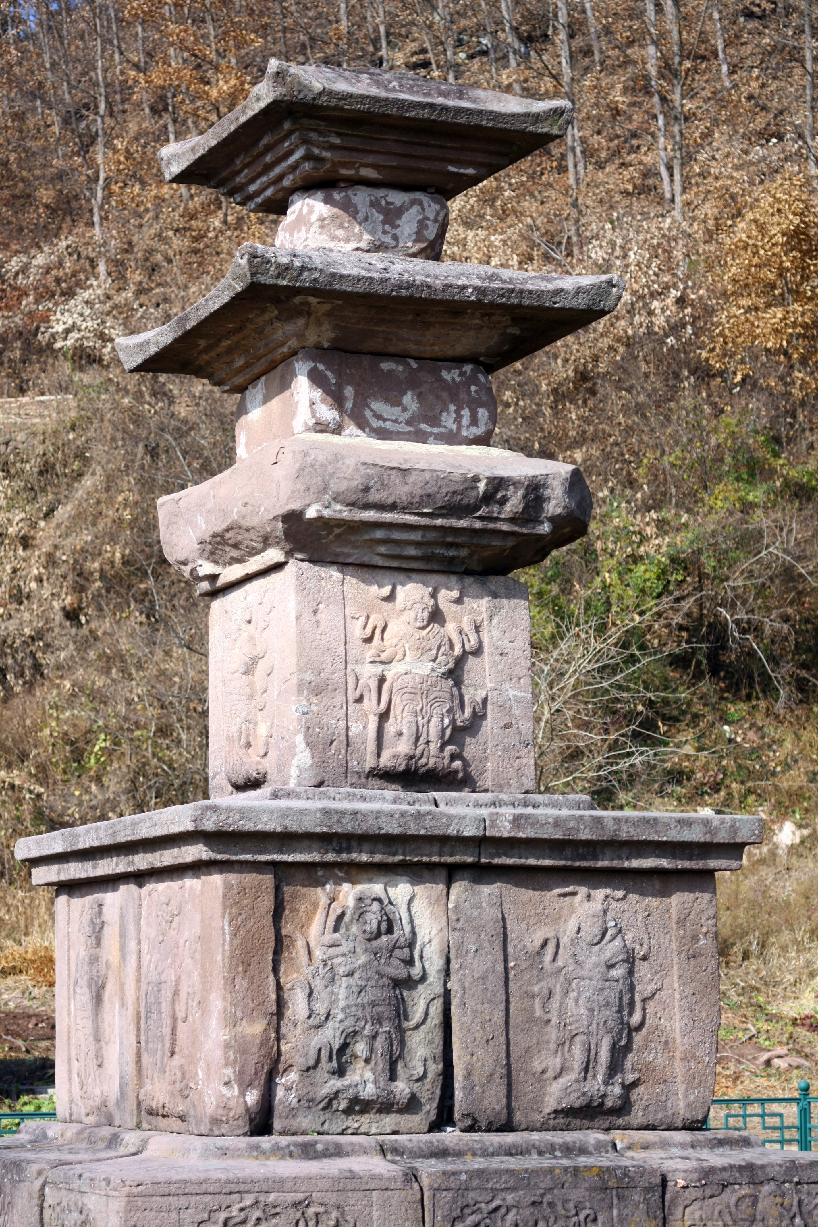 Three-story Stone Pagoda at Hwacheon-ri, Yeongyang in South Korea